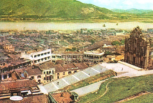 Ruins of St. Paul's Cathedral seen from the Hill Fortress circa 1955